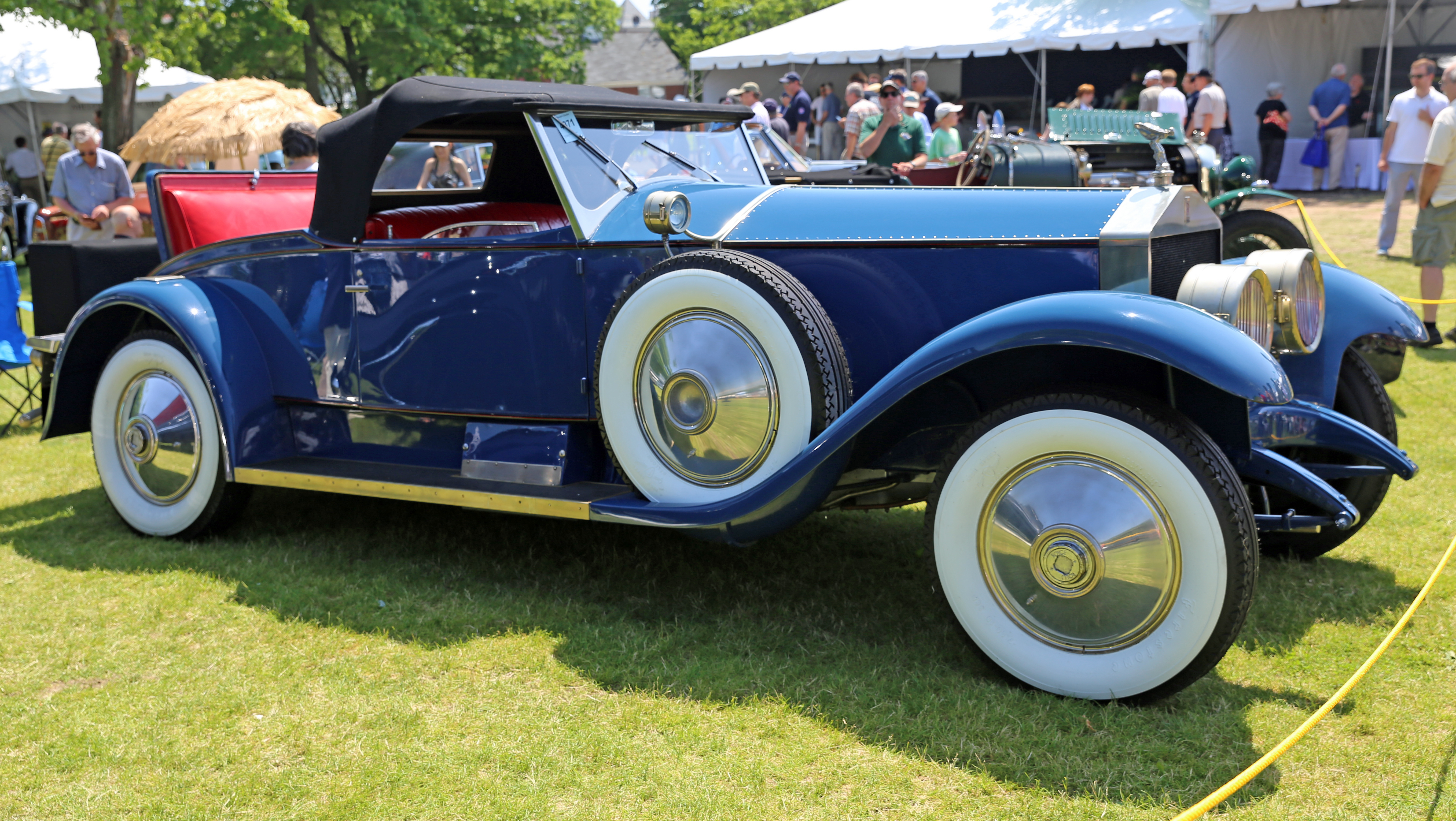 1926 Rolls-Royce Silver Ghost "Playboy" Roadster, a Springfield Left Hand Drive bodied by Brewster. Chassis #S400RK, engine #28004. Seen at the 2013 Greenwich Concours d'Elegance.